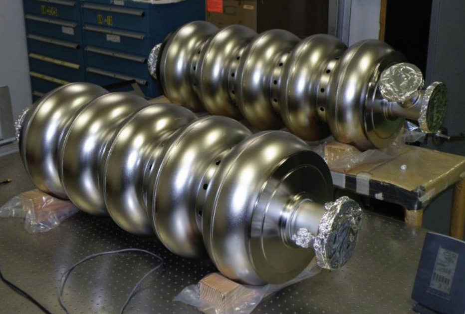 An image from Proceedings of LINAC2014, Geneva, Switzerland ISBN 978-3-95450-142-7 pages 171-173. Copyright © 2014 CC-BY-3.0 and by the respective authors. These are prototypes of 650 MHz superconducting radio frequency cavities with energy range of 480-800 MeV to be used in the last segment of PIP-II linac at Fermilab.